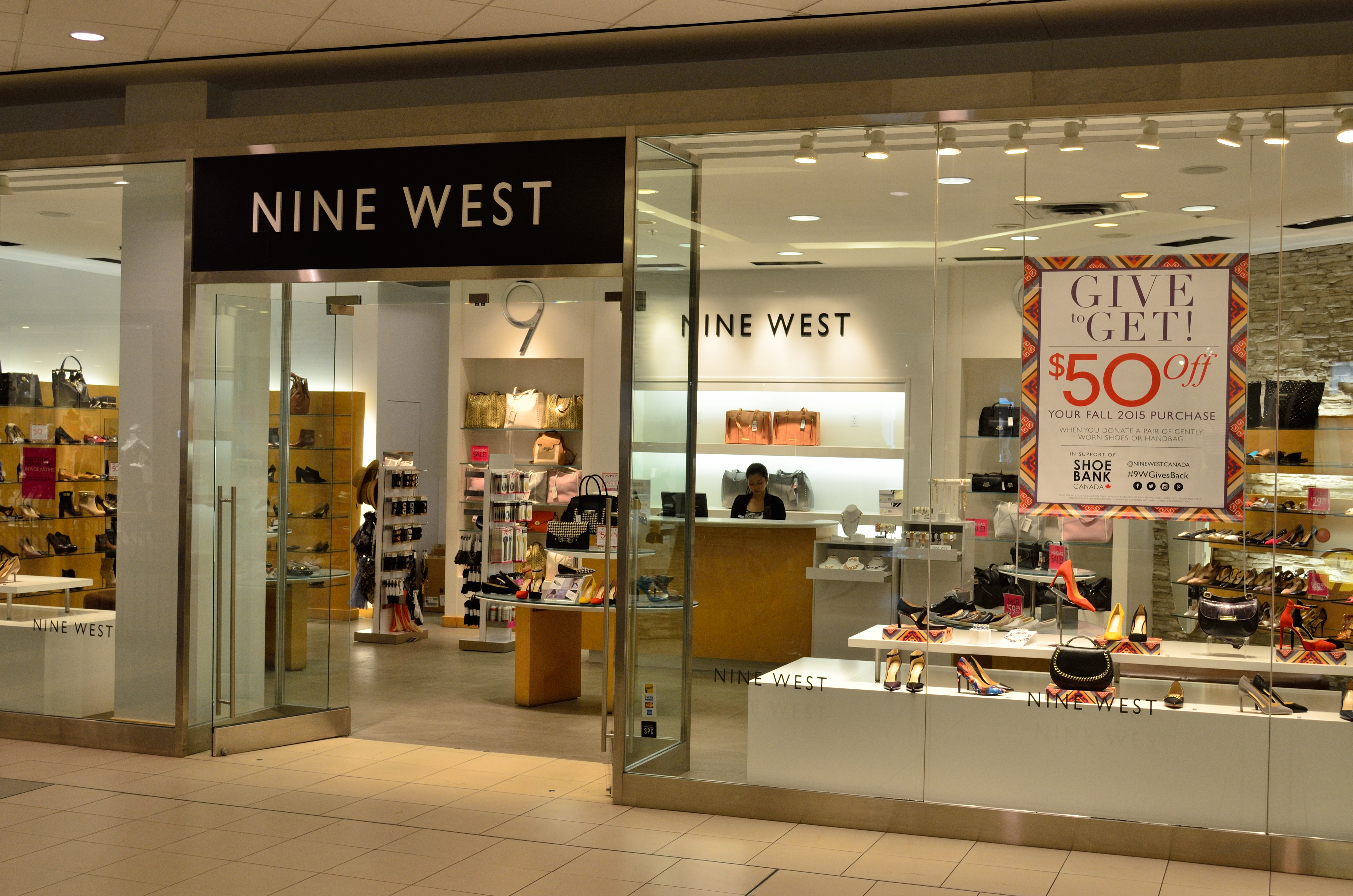 Nine West at Promenade